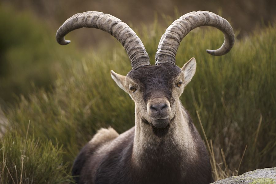 Spanish Ibex (Capra pyrenaica victoriae) male ruminating. After having been grazing for some time, ruminants lie down, and ruminate (i.e. fully chew and digest) that food. This is typically the best moment to try and get slightly closer for a closeup portrait. The picture, taken with a 500mm, to avoid any disturbance, was taken in Gredos mountains, Avila, Spain